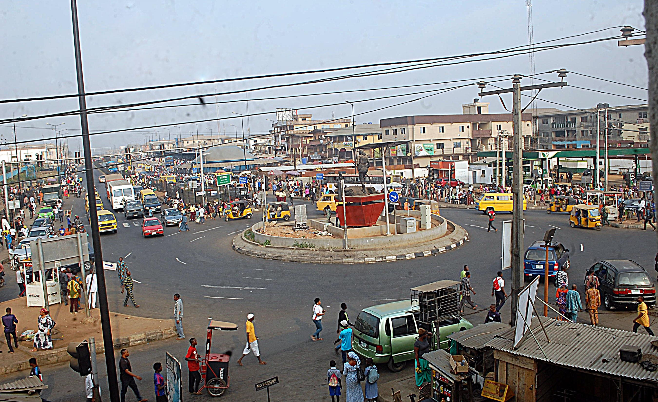 landscape of ikorodu city,taken at ikorodu in the morning showing the Ikorodu OGA statue and the daily action of the people.